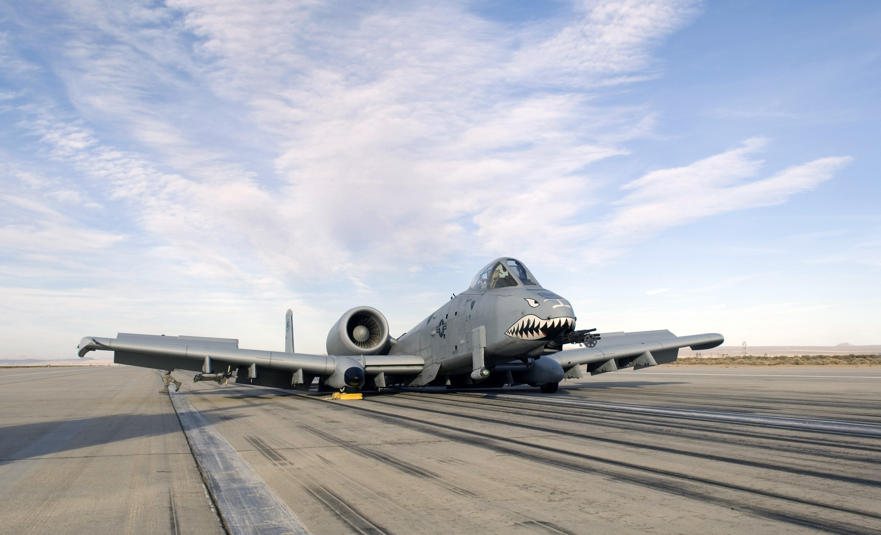 An A-10 sits on Runway 22 at Edwards AFB after making an emergency landing here March 25. The A-10 touched down with its landing gear in the up position after declaring an in-flight emergency. The pilot was not harmed, but there is visible damage to muzzle of the gatling gun. The aircraft, assigned to the 75th Fighter Squadron at Moody AFB, Ga., was participating in a Green Flag sortie out of Nellis AFB, Nev. (Air Force photo by Brad White)